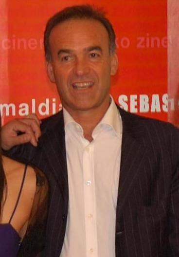 Documentary film maker Nick Broomfield in 2005.